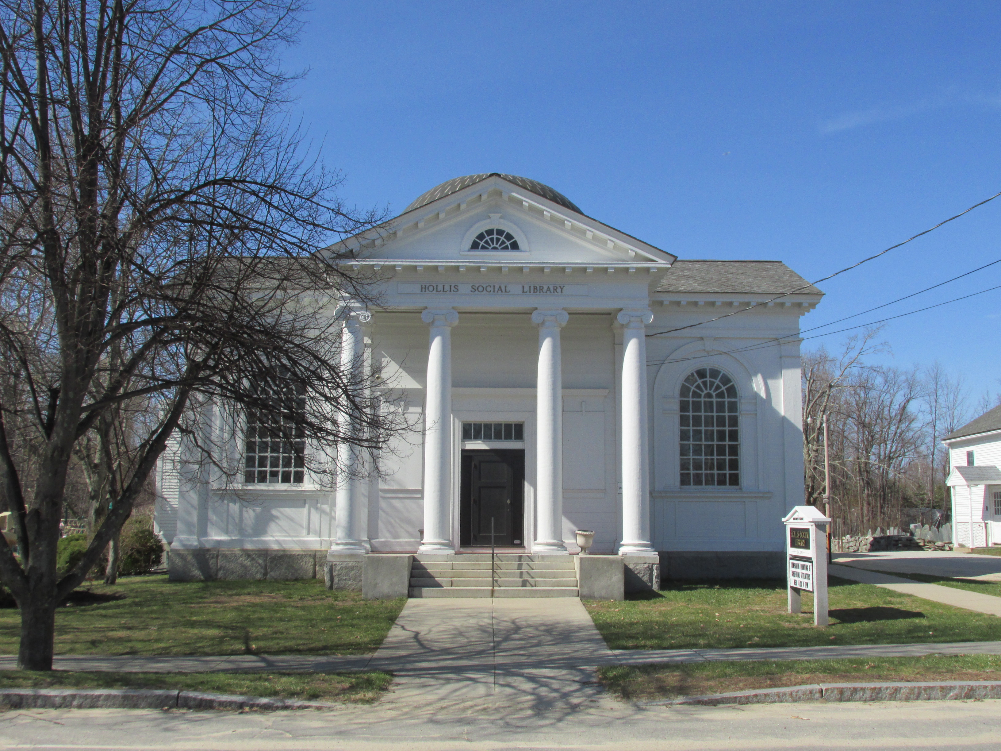 Hollis Social Library, Hollis New Hampshire